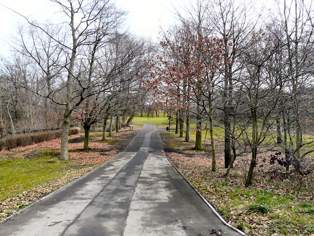 Philips Park Entrance off Alan Turing Way.